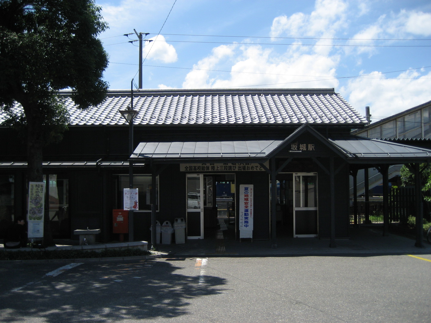 Shinano Railway Sakaki Station